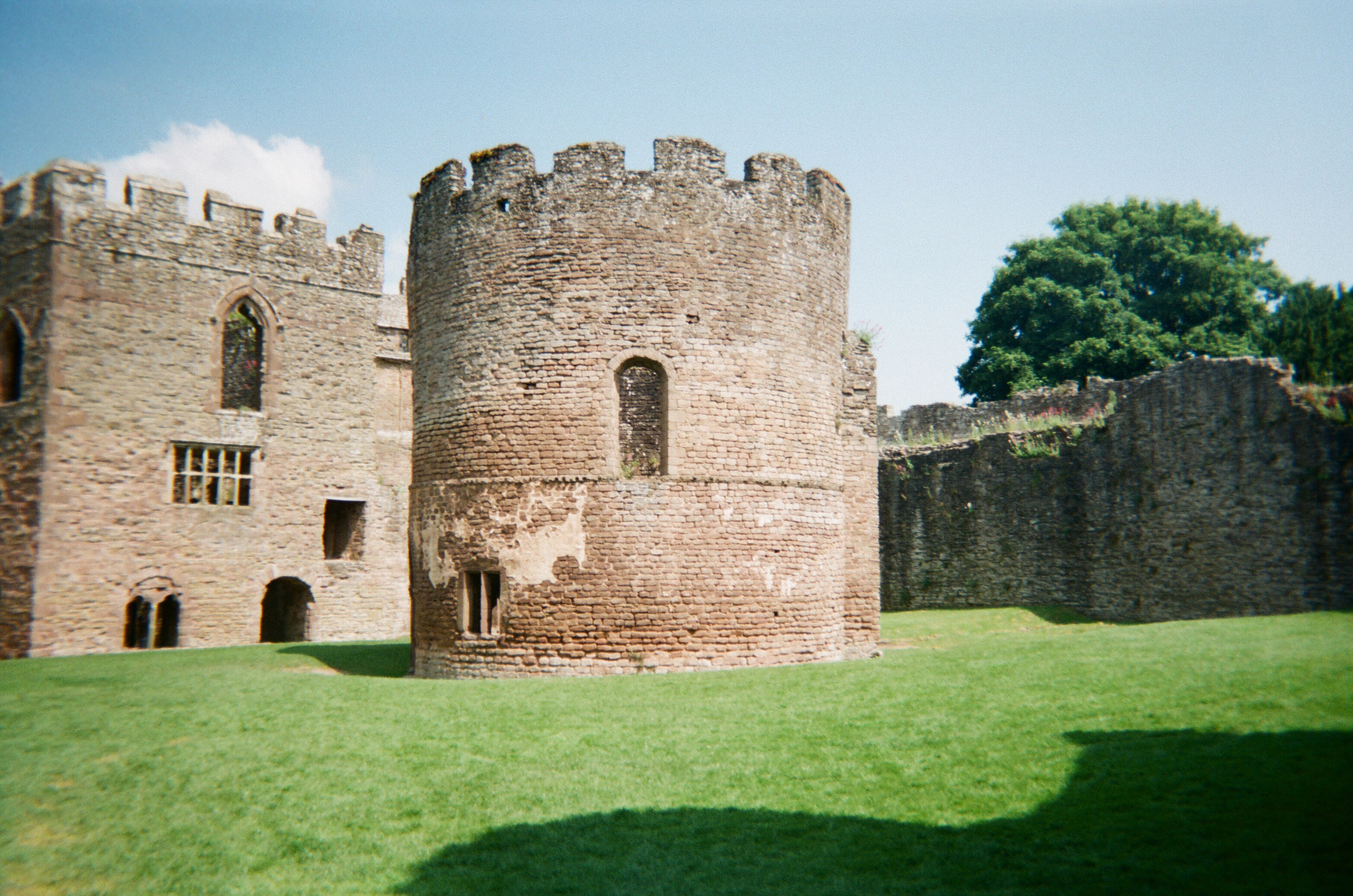 The chapel and great chamber chamber block of Ludlow Castle